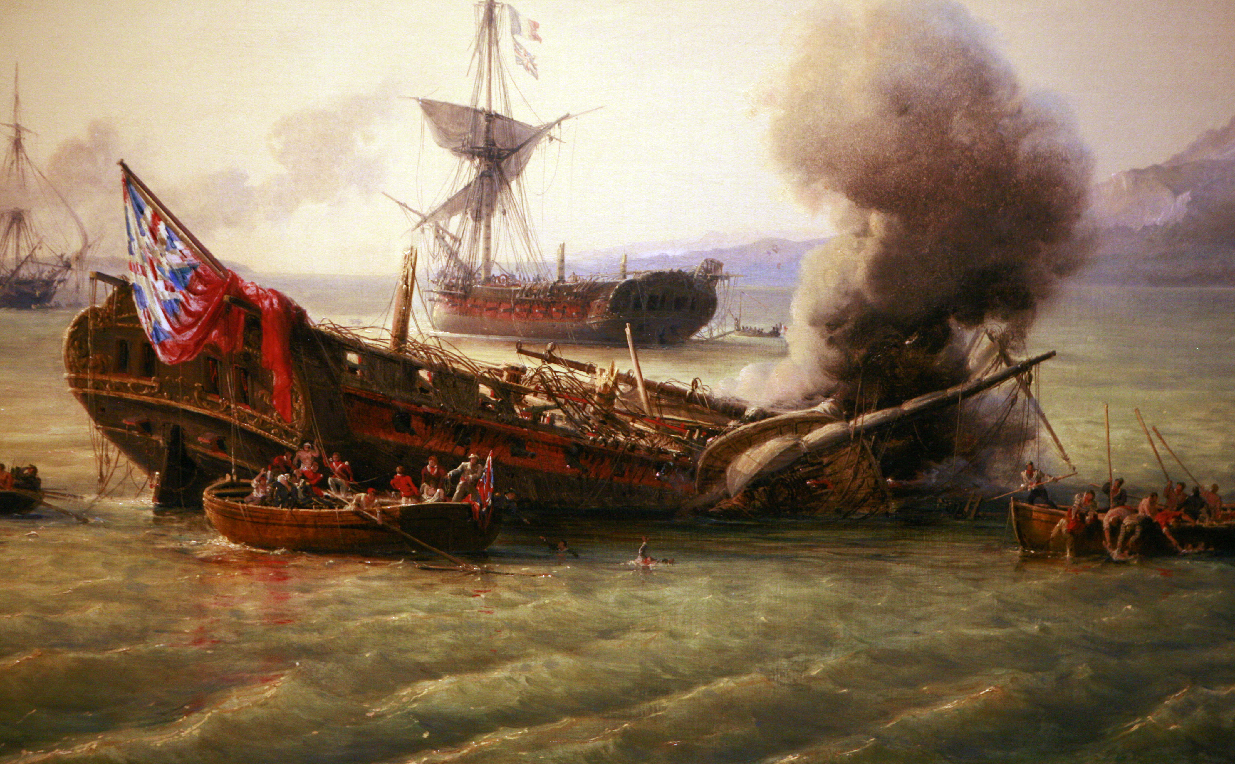 Detail of the Battle of Grand Port: scuttling of HMS SiriusOil on canvasCollection Musée national de la Marine Native nameMusée national de la MarineLocationParisCoordinates48° 51′ 43″ N, 2° 17′ 15″ E Established1827Web page control : Q1286709 VIAF: 19144648200974718522 ISNI: 0000 0001 2259 2914 LCCN: n50055356 Museofile: M5026 WorldCat institution QS:P195,Q1286709Source/Photographer Rama